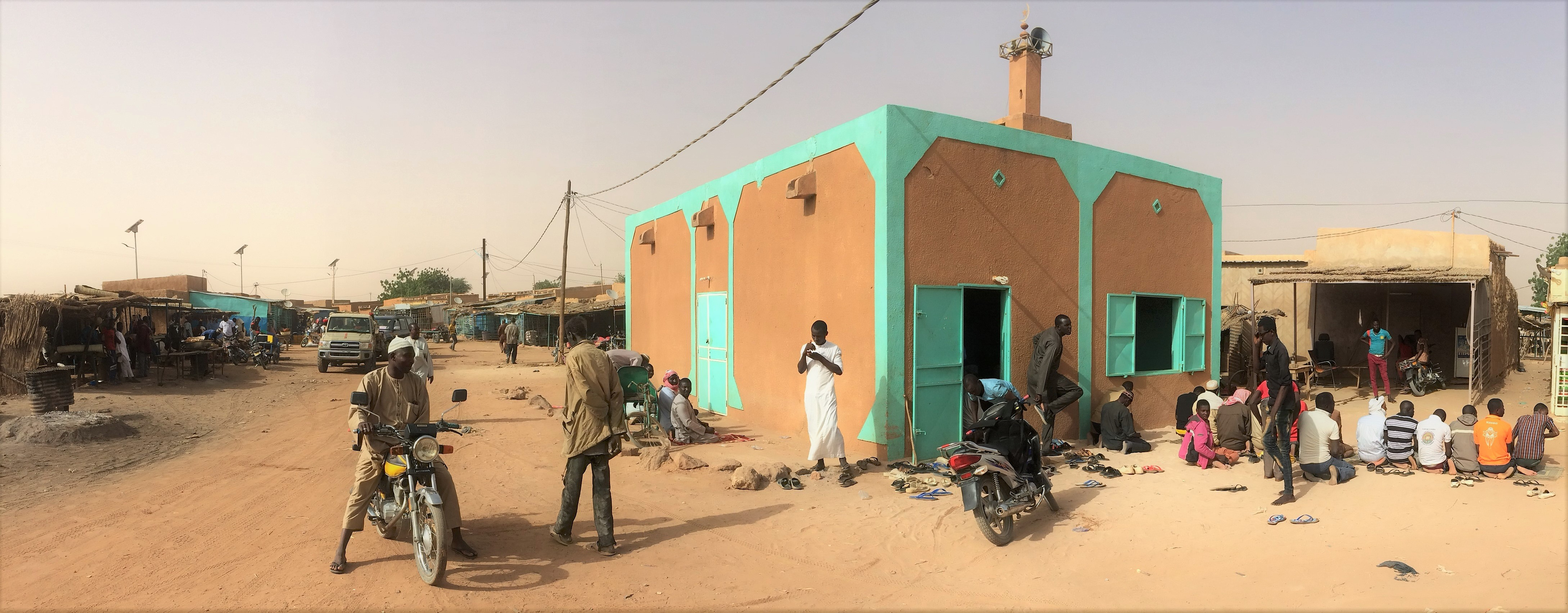 Scene with mosque in Filingué, close to the central market (Filingué Department, Tillabéri Region), Niger.